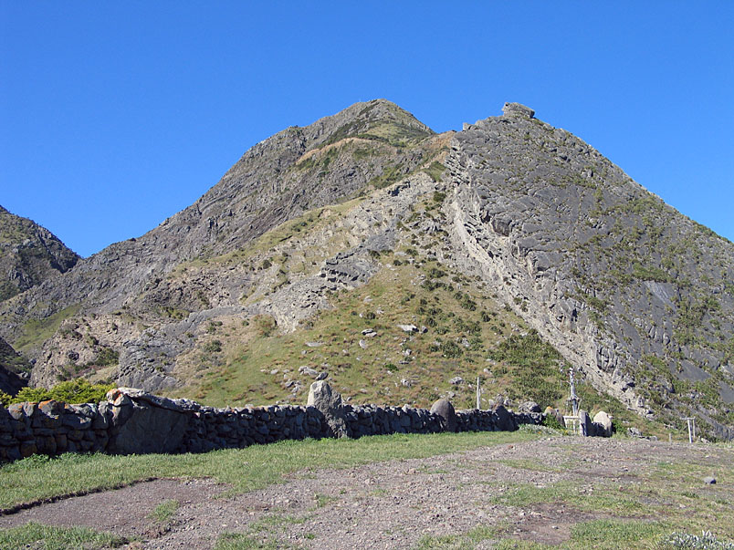 Ngā-rā-o-Kupe, or Kupe's Sail, a rock outcrop located less than a mile from Cape Palliser, in New Zealand's Wairarapa district.